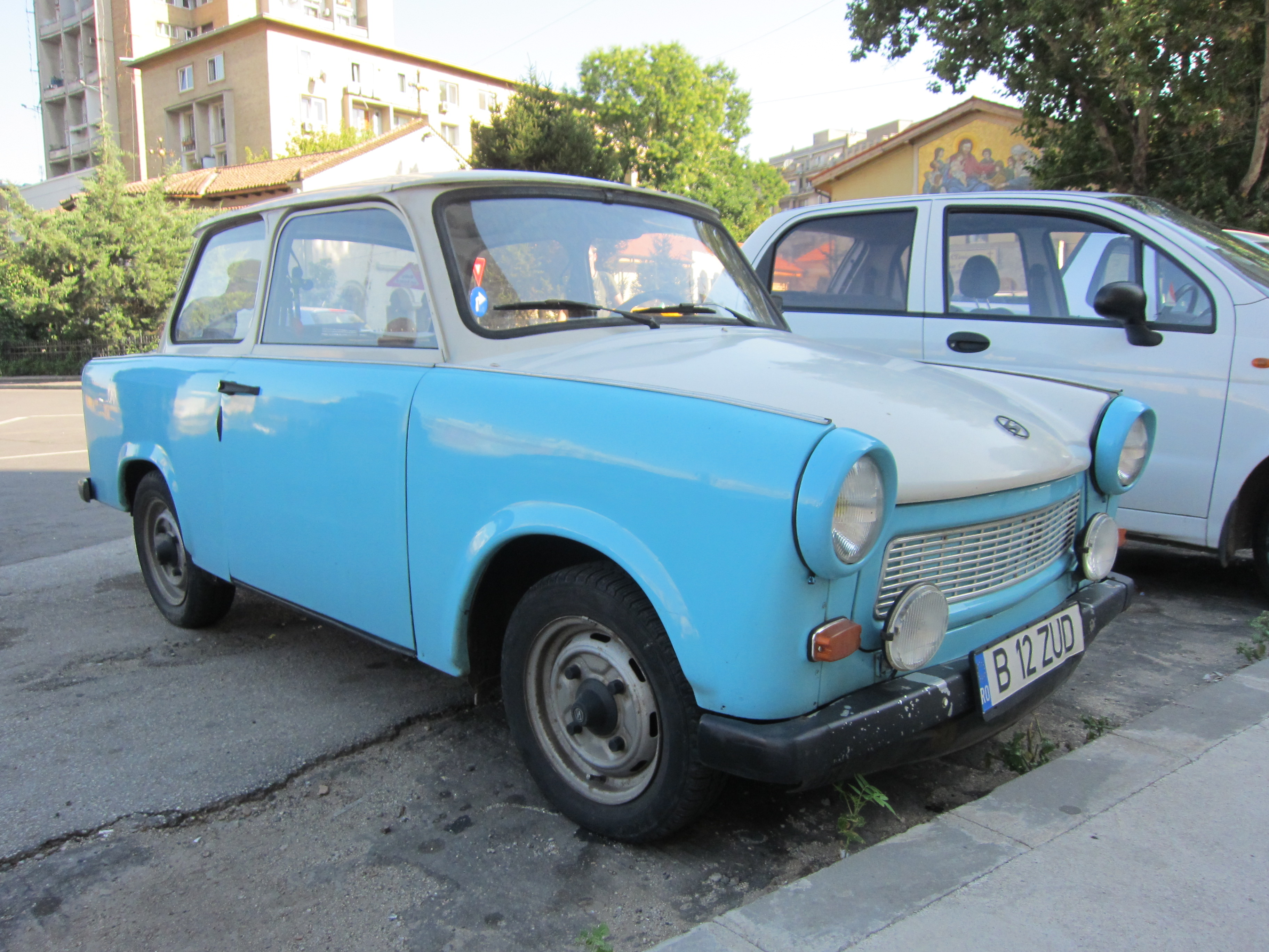 Trabant 601 S in Bucharest, Romania.